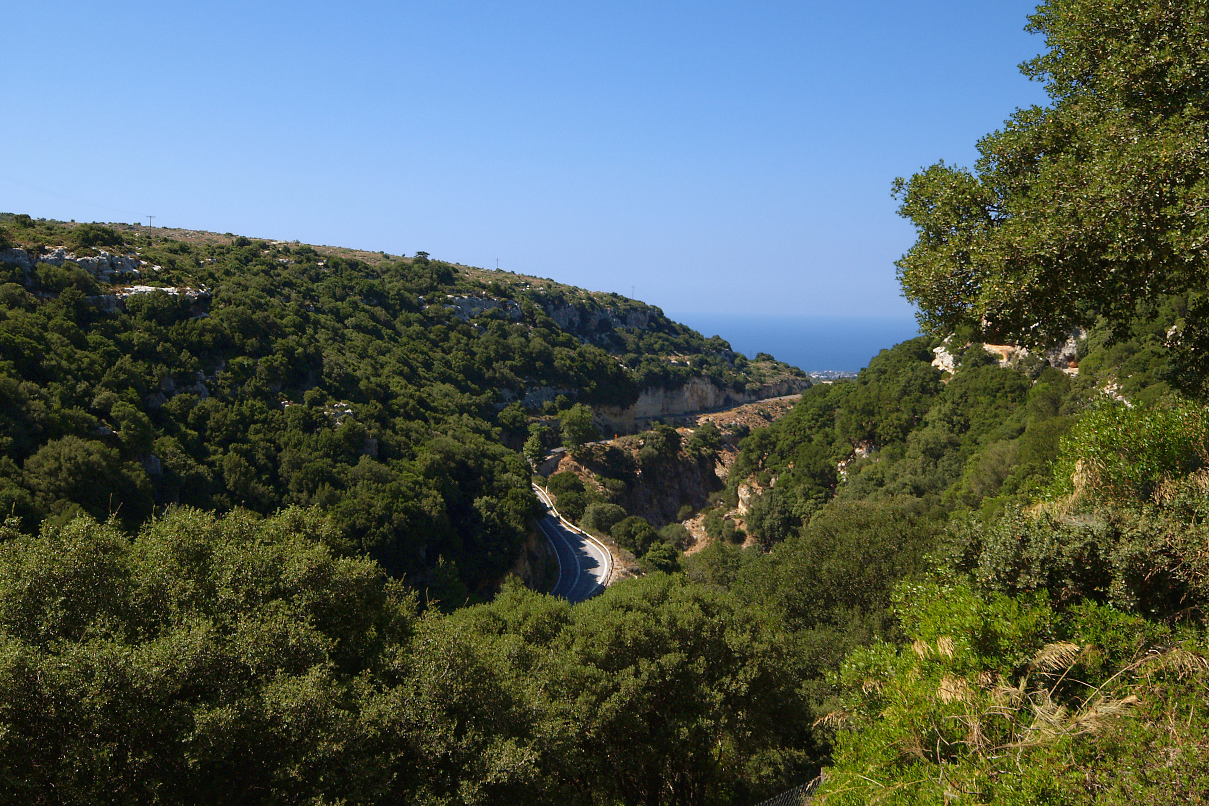 View of the Arkadi gorge and the Sea of Crete from the exterior of the Arkadi Monastery